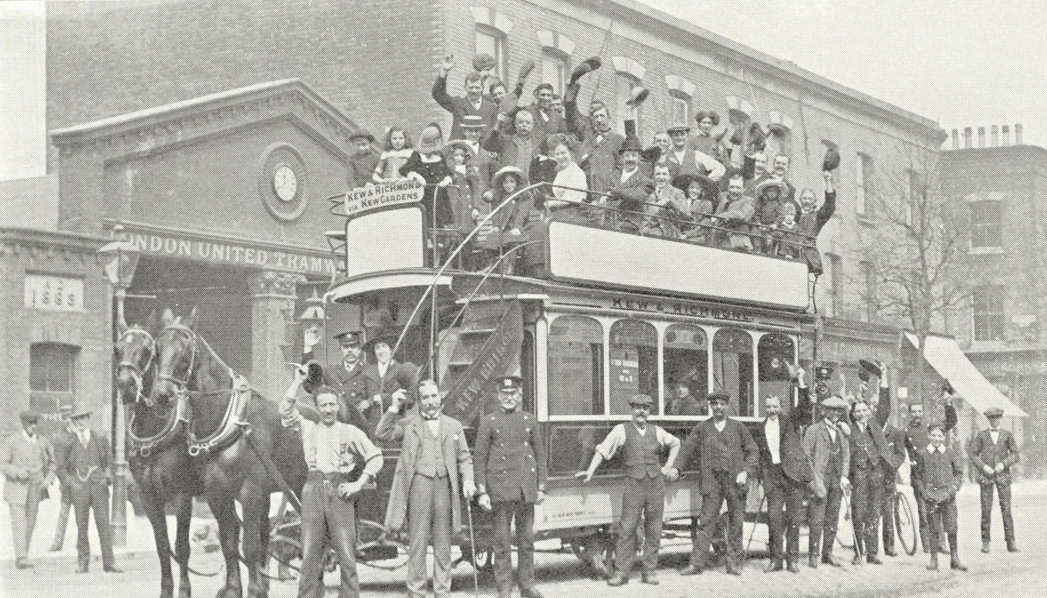 A London United Tramways Company Limited tram in front of the company's tram-shed along Kew Road, Richmond, Surrey TW9 2PN, UK.